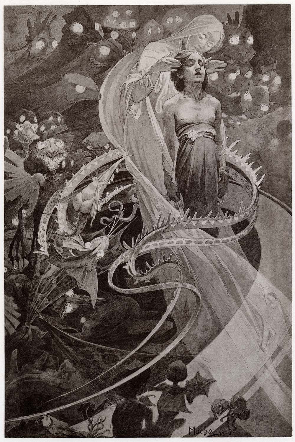 Mucha, Afons, Seventh allegorical page from Le Pater (1899), "And lead us not into temptation, but deliver us from evil"